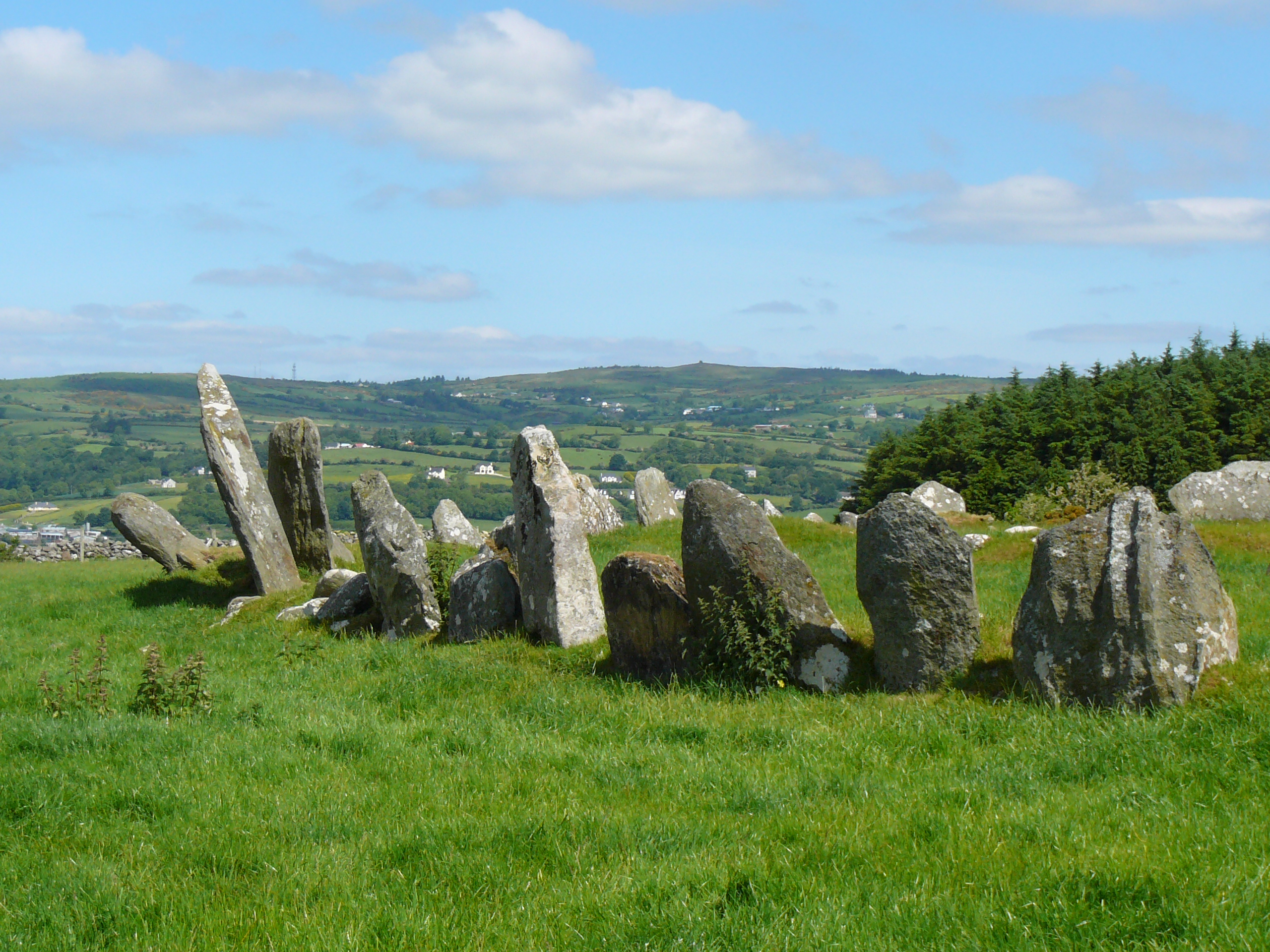 Beltany Stone Circle, from its west side, south of Raphoe, Co. Donegal, Ireland